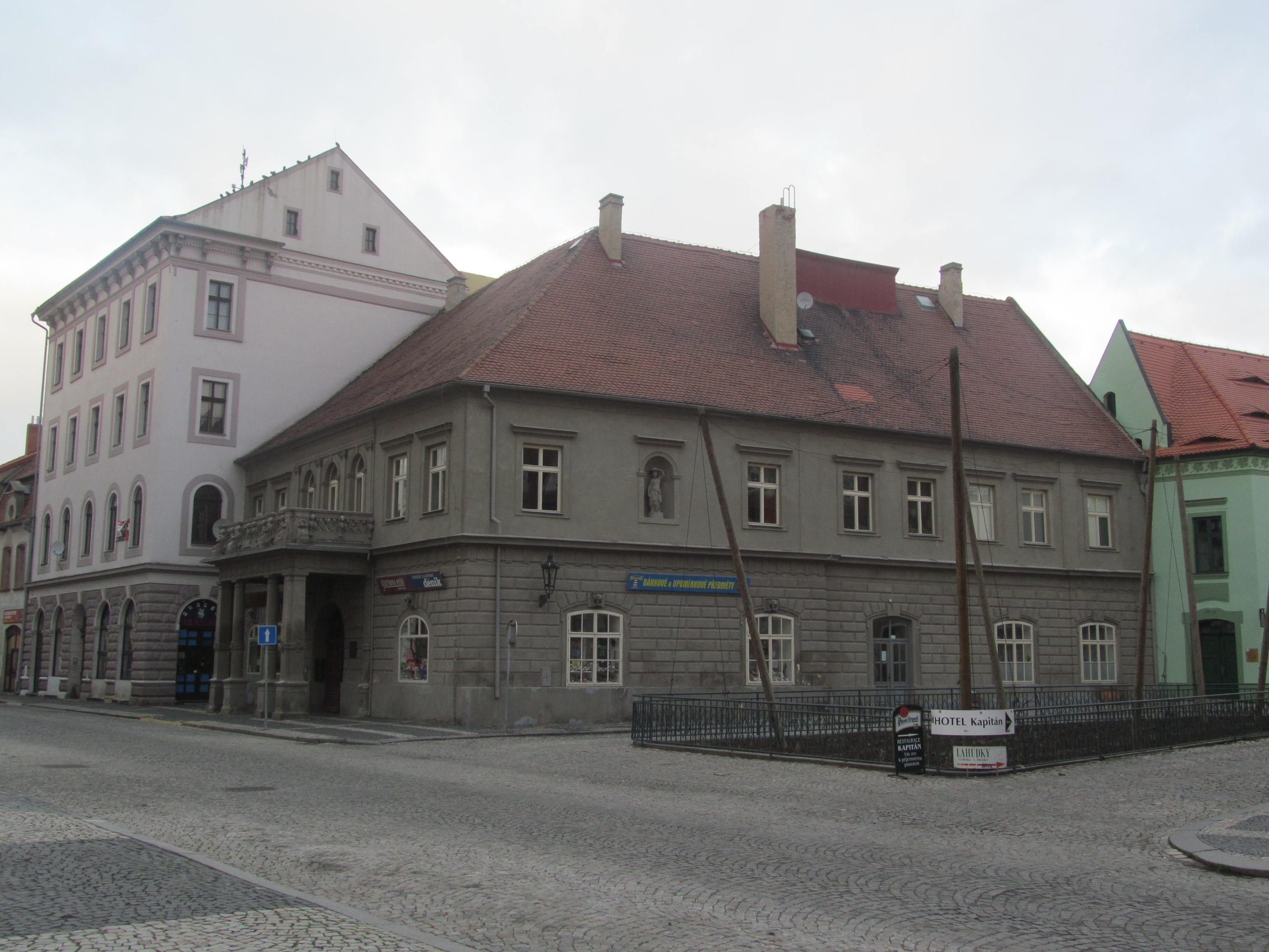 Žatec, House of Maxmilián Hoštálek